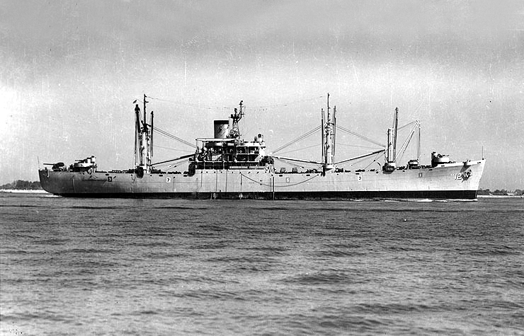 The U.S. Navy attack cargo ship USS Libra (AKA-12) underway in Hampton Roads, Virginia (USA), on 11 August 1952.